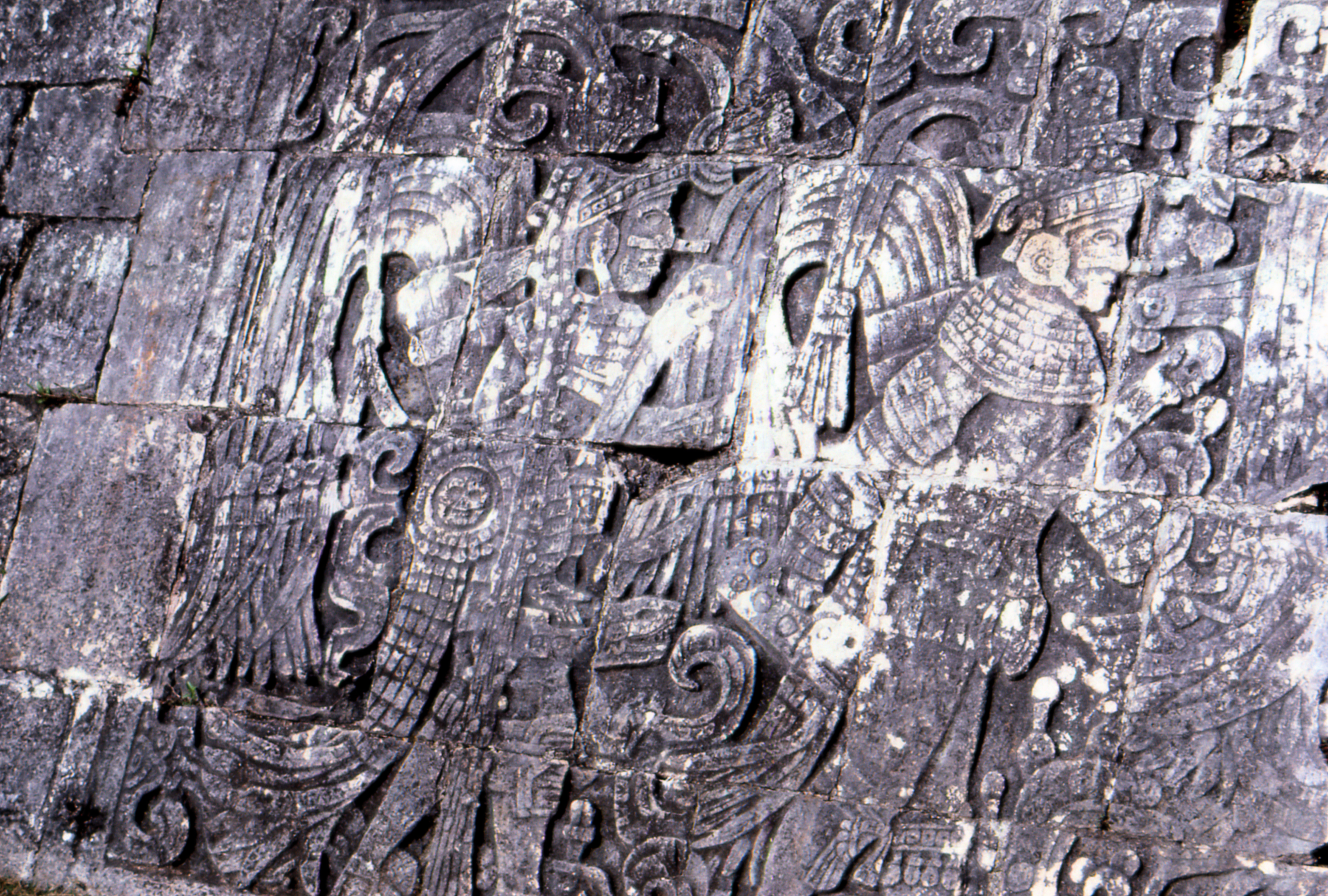 Ancient Mayan reliefs from the temple of Chichen Itza